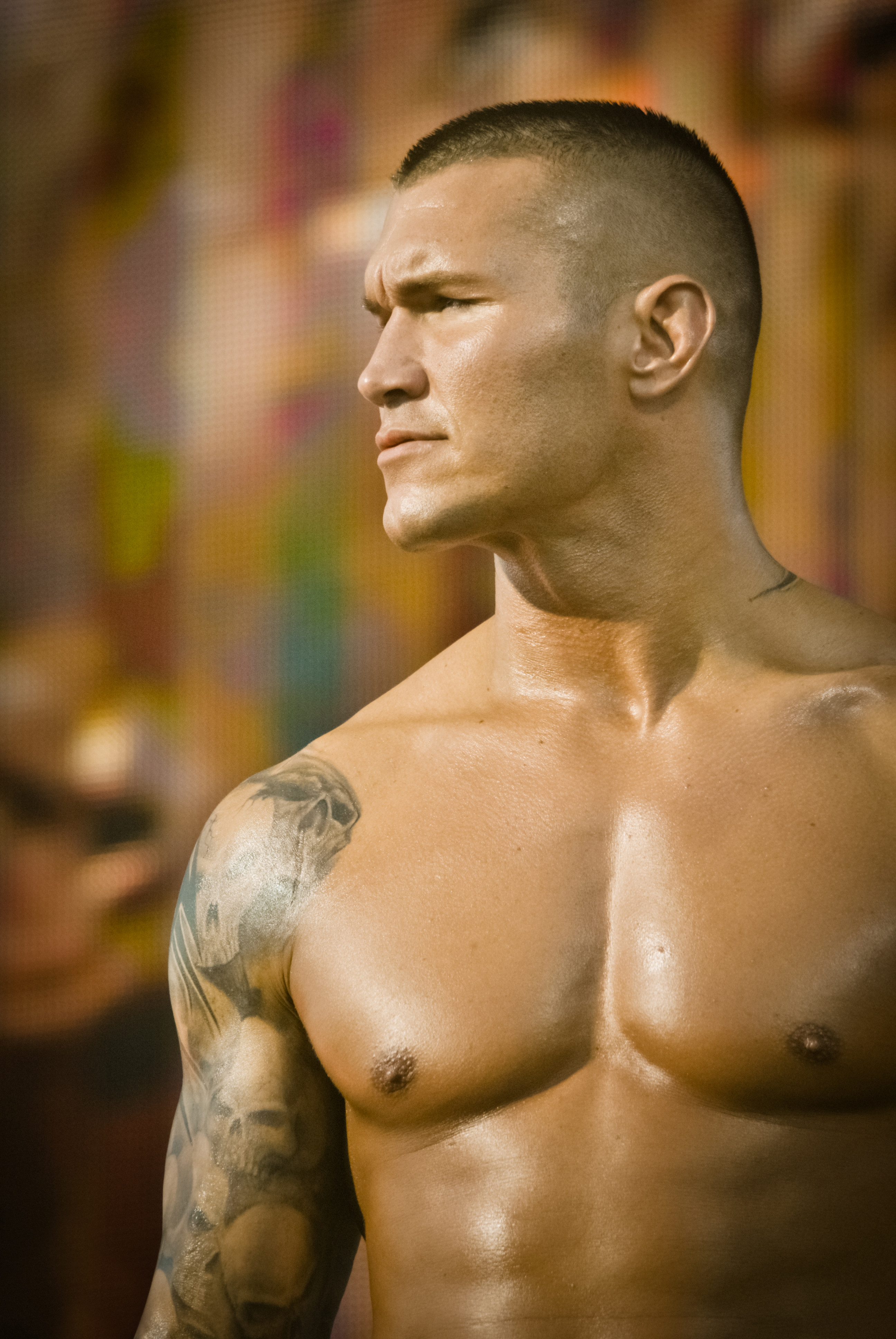 Randy Orton at WWE's Tribute to the Troops show in Fort Hood, Texas, on December 11, 2010.